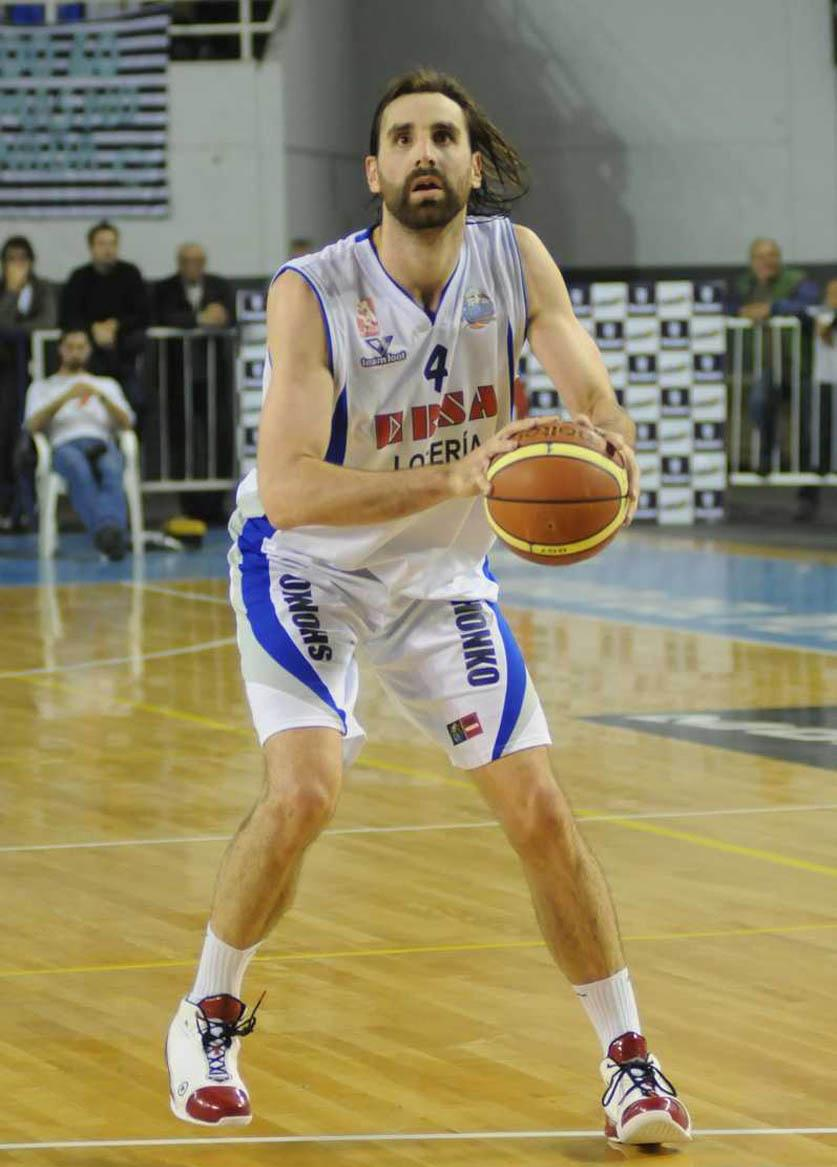 Federico Kammerichs, Argentinean basketball player.